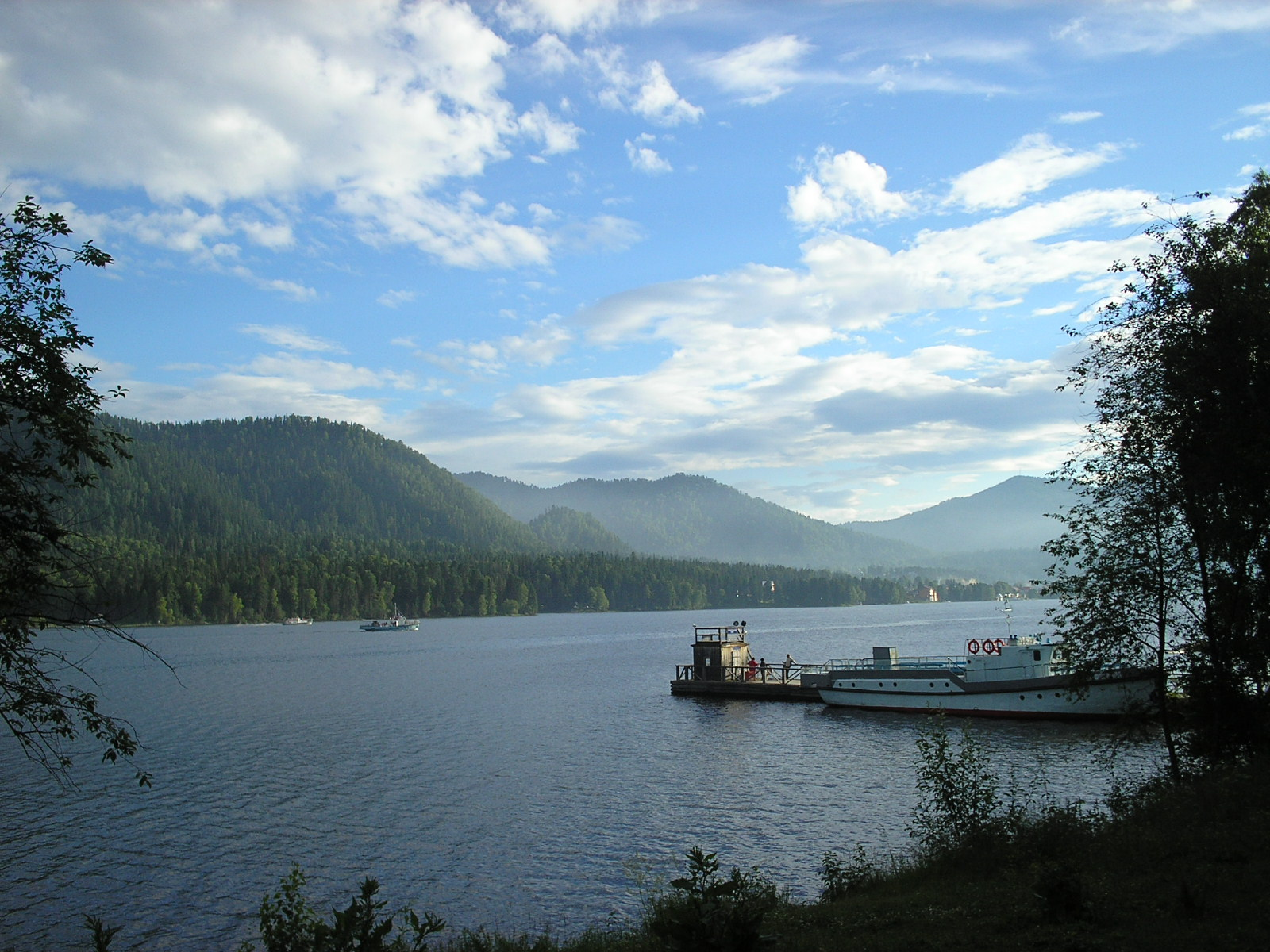 View on Lake Teletskoye in the evening near Artybash settlement